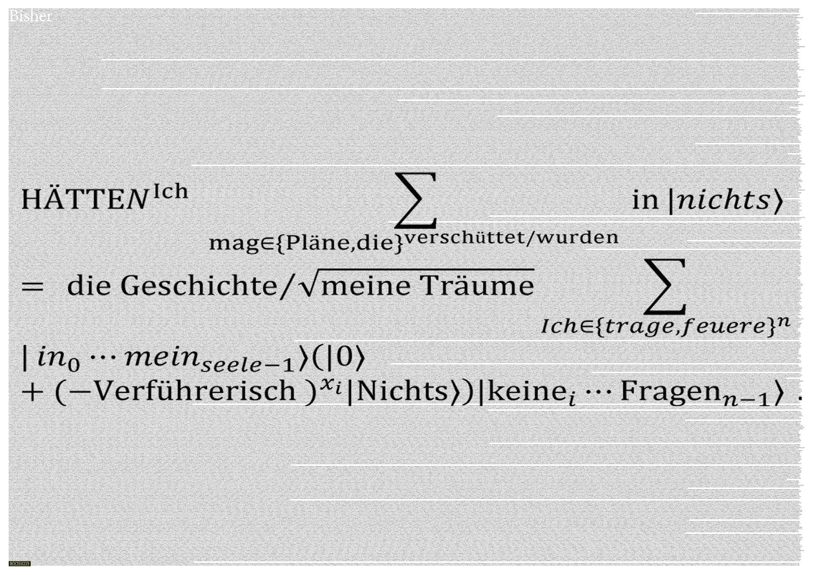 An example of poetry equations from a book published in 2019 entitled DNA Leinwänden der Poesie.